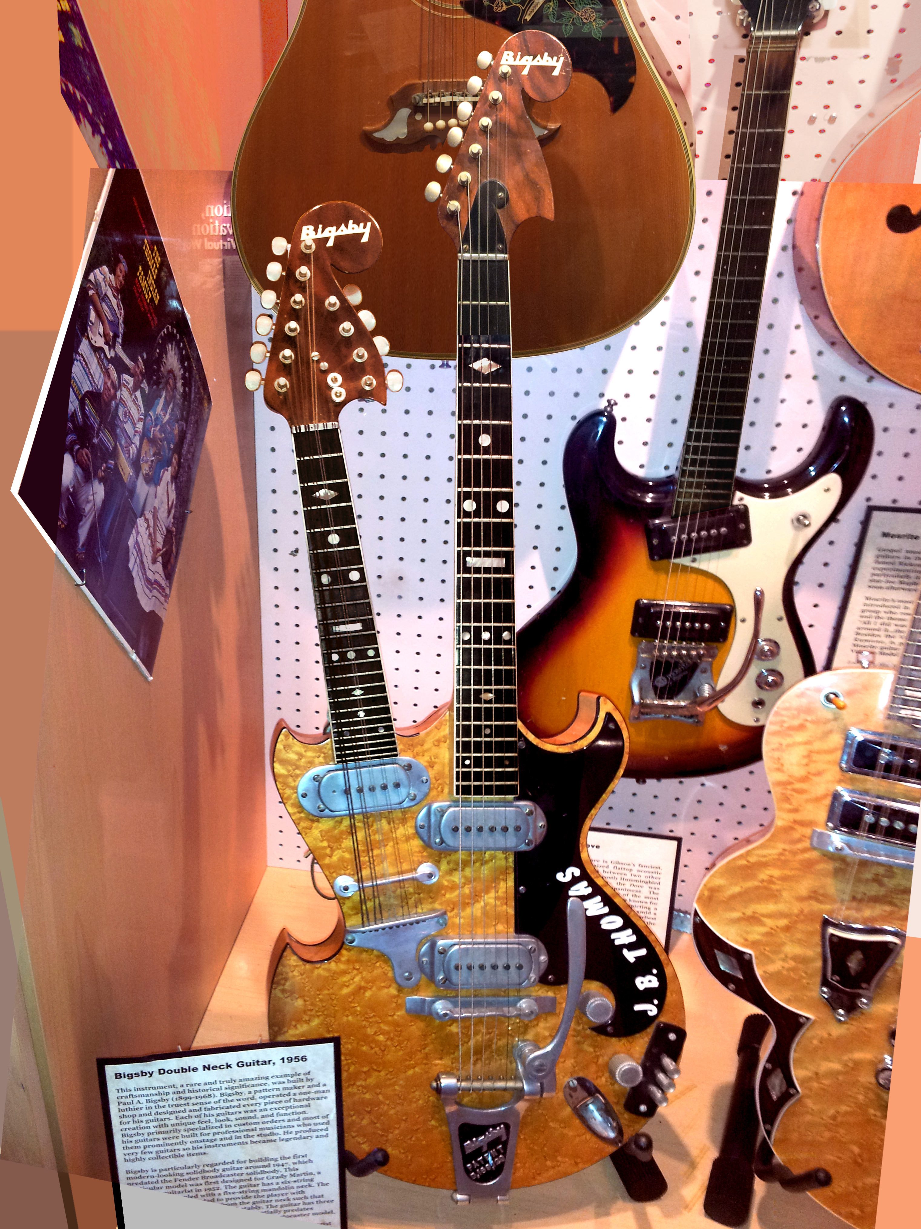 Bigsby double-neck guitar (1956), Mosrite, Harvey double-neck guitar (1957), Museum of Making Music Bigsby Double Neck Guitar, 1956 This instrument, a rare and truly amazing example of craftsmanship and historical significance, was built by Paul A. Bigsby (1899-1968). Bigsby, a pattern maker and a luthier in the truest sense of the word, operated a one-man shop and designed and fabricated every piece of hardware for his guitars. Each of his guitars was an exceptional creation with unique feel, look, sound and function. Bigsby primarily specialized in custom orders and most of his guitars were built for professional musicians who used them prominently onstage and in the studio. He produced very few guitars so his instruments became legendary and highly collectible items. Bigsby is particularly regarded for building the first modern-looking solidbody guitar around 1947, which predated the Fender Broadcaster solidbody. This paticular model was first designed for Grady Martin, a ...ed with a five-string mandolin neck. The .... to provide the player with ... the guitar neck such that ...ably. The guitar has three ...ially predates ...caster model.